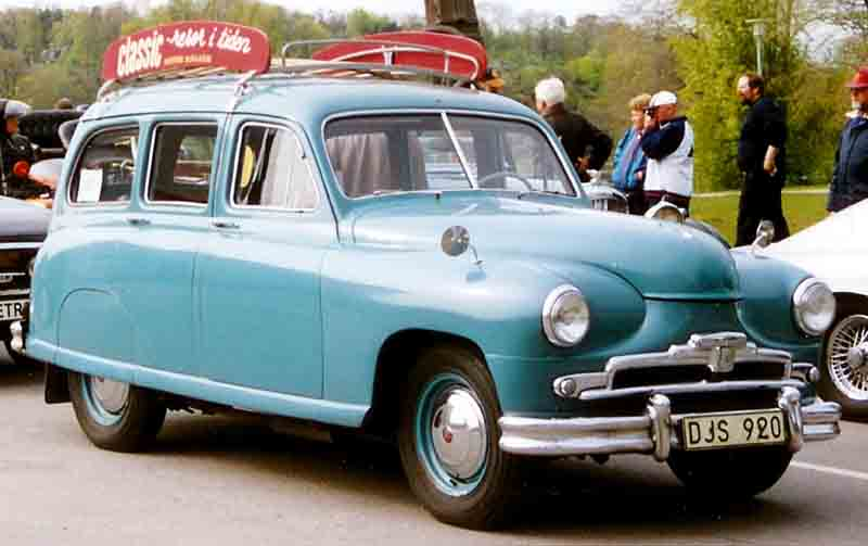 Standard Vanguard Station Wagon 1954